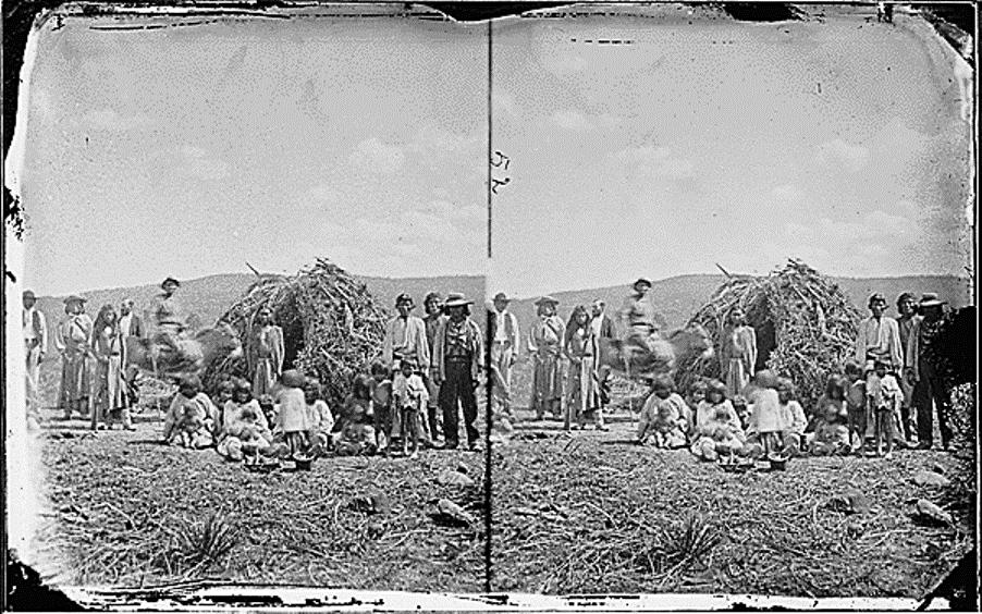 A camp of the Coyotero Apache in 1873.